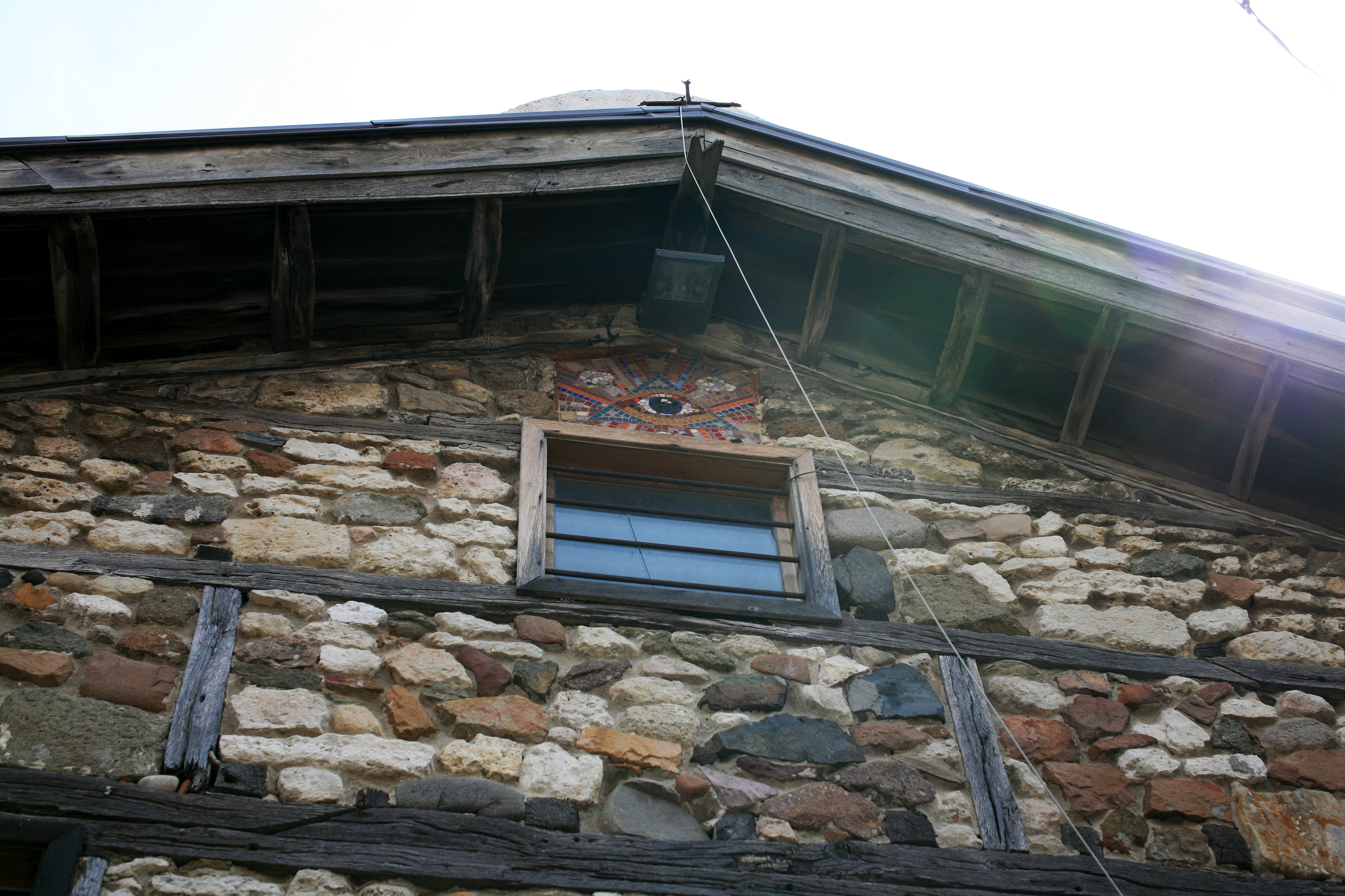 Church of the Transfiguration of God (1765) in Pomorie